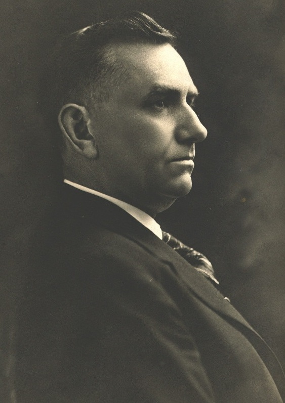 Portrait of Tennessee Governor Albert H. Roberts (1868–1946)